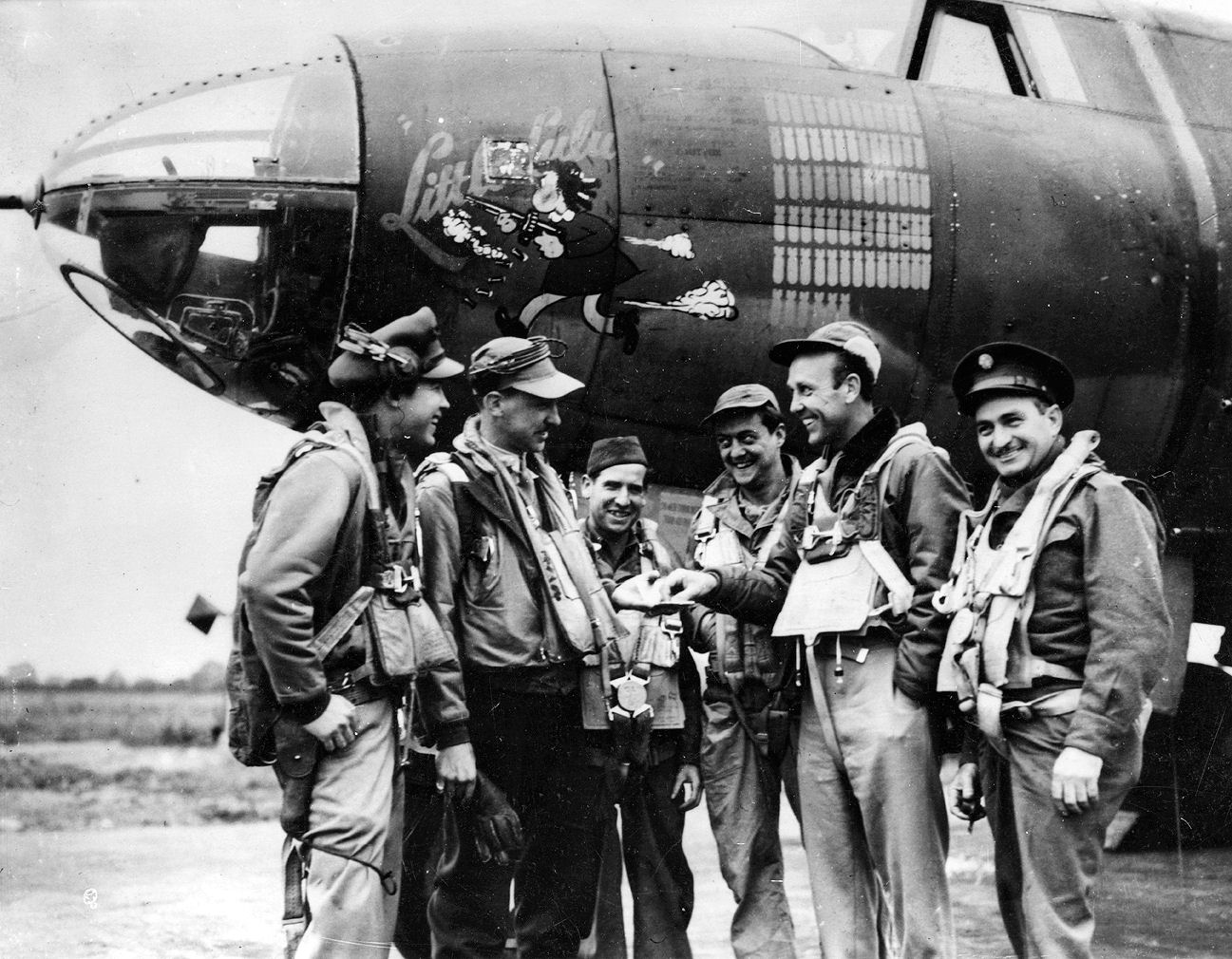 William Randolph Hearst Jr. (son of the famous newspaper publisher) with a bomber crew of the 387th Bomb Group and their B-26 Marauder nicknamed "Little Lulu". Image stamped on reverse: 'Keystone Press.' [stamp], 'Passed for publication 14 Jun 1944.' [stamp] and '328249.' [Censor no.] Printed caption on reverse: 'HEARST'S SON IN ETO. Photo show:- WR Hearst Jr. pictured with crew members of the "Little Lulu" at a Marauder base somewhere in England after his return from his mission over the battle area.'